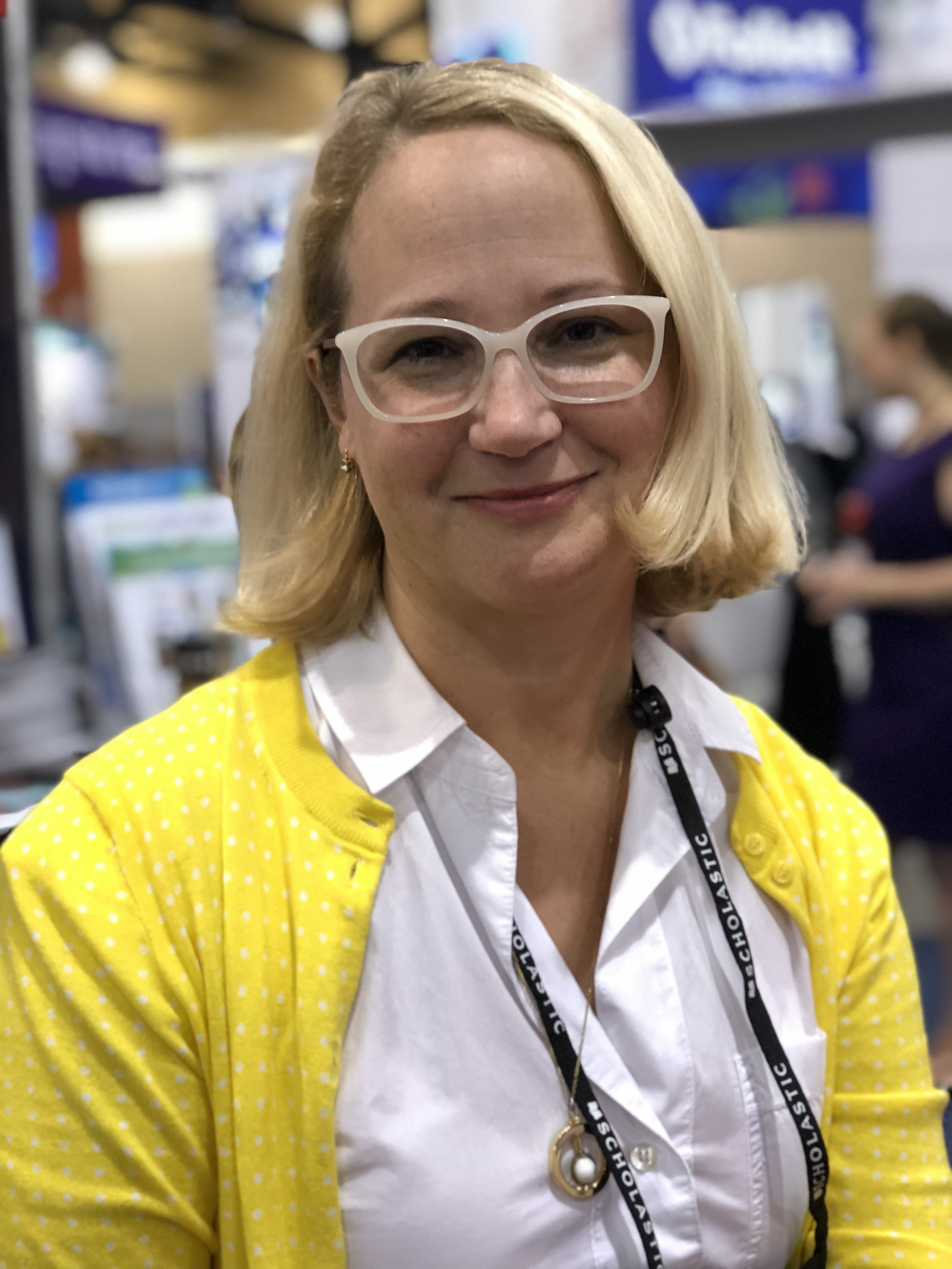 Book author Jennifer L. Holm at the ALA American Association of School Librarians conference in 2017